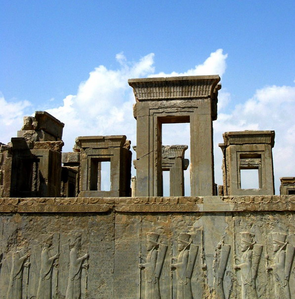 This photo was taken by Asana Mashouf If used outside Wikipedia, please credit: "Photo by Asana Mashouf" Persepolis